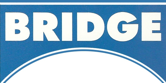 A representation of the image used to identify the Natural Environment Research Council's British Mid-Ocean Ridge Initiative (BRIDGE) from 1992-1999.